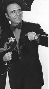 Jorge Basurto- actor argentino.